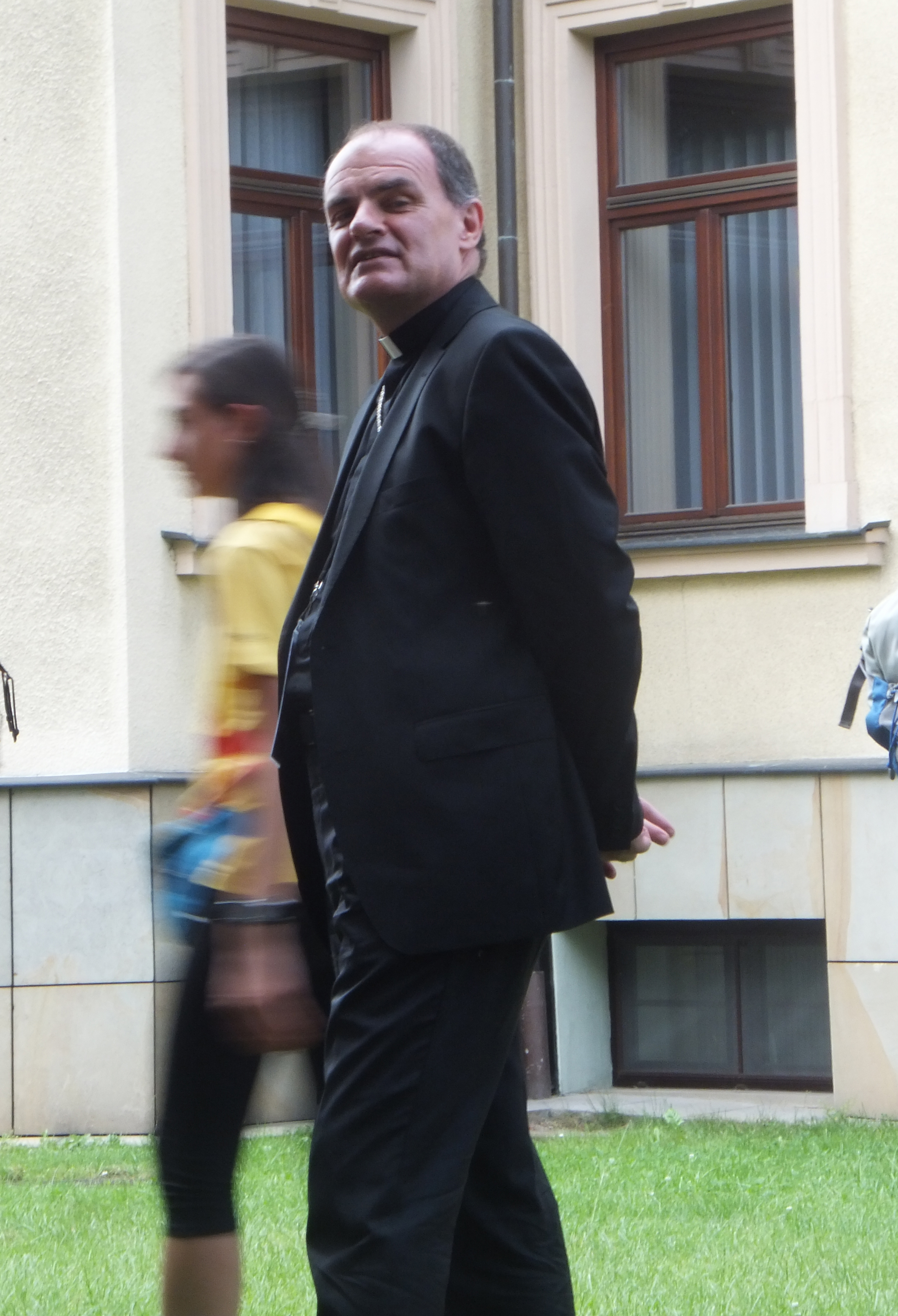 Ivo Muser, bishop of Bolzano-Bressanone, at the World Youth Day 2016 in Cracow